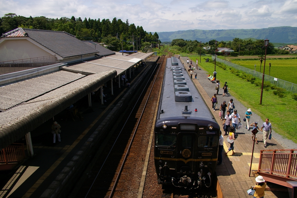 Hohi Main Line Aso Station platforms